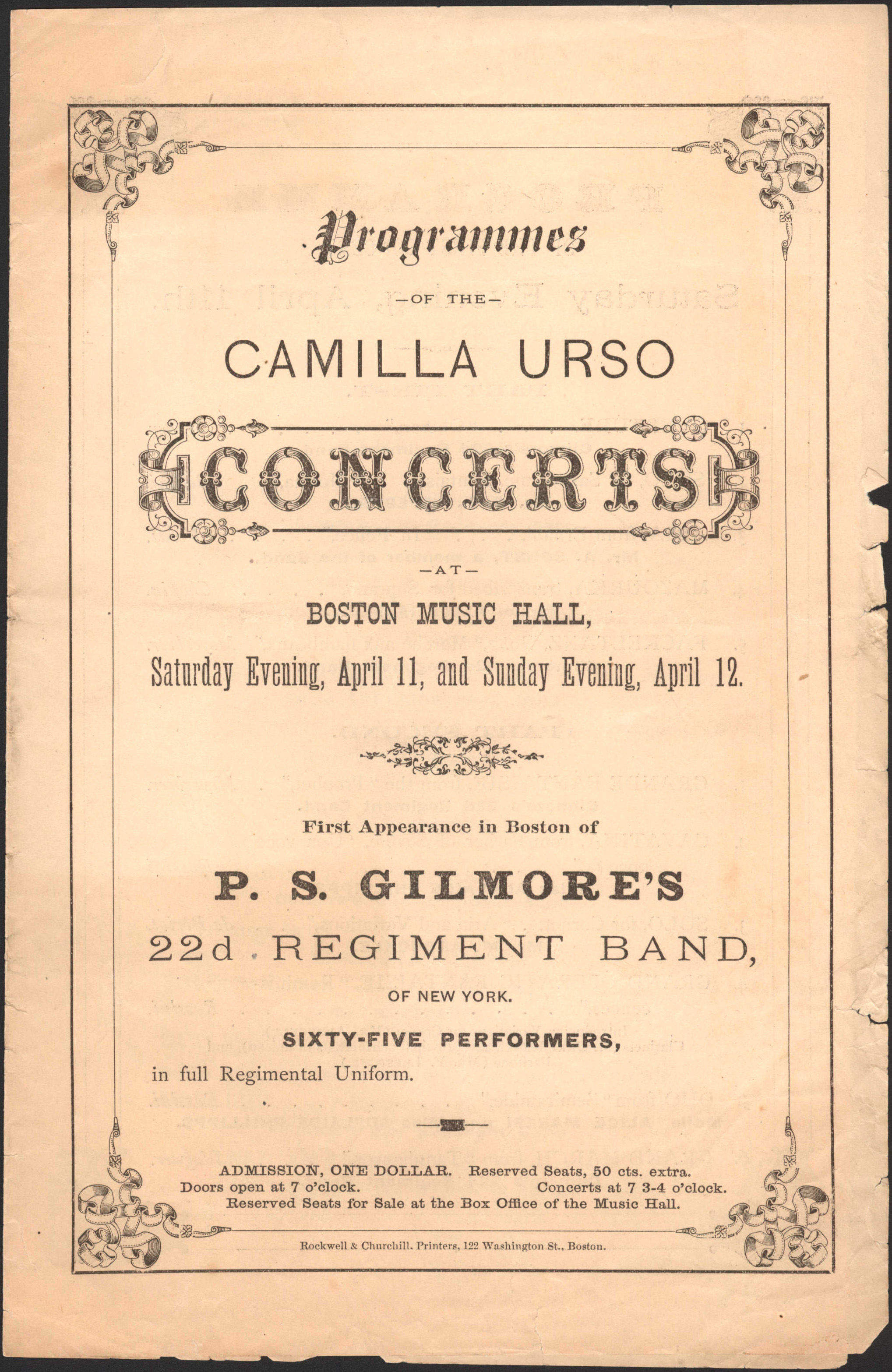 Program cover for the Camilla Urso Concerts at Boston Music Hall, given on April 11 & !2, [1863], and featuring P. S. Gilmore's 22d Regiment Band